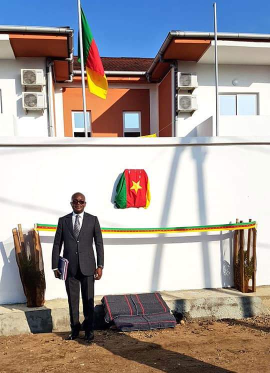 Cameroonian Consulate in Ouesso, Republic of the Congo